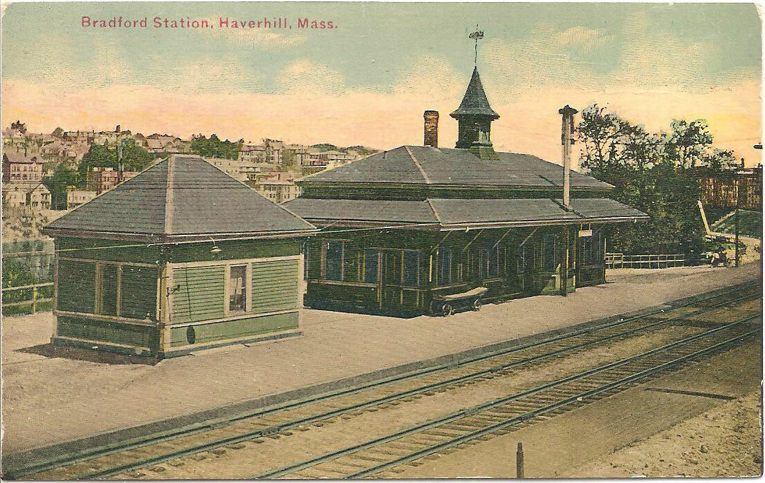 Early divided back postcard of Bradford station